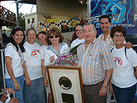 Teresa de Dios Unanue, receiving the award